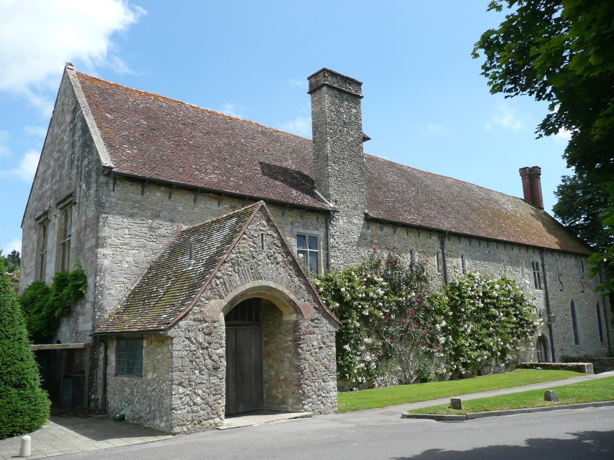 Beaulieu Abbey, Hampshire, England.